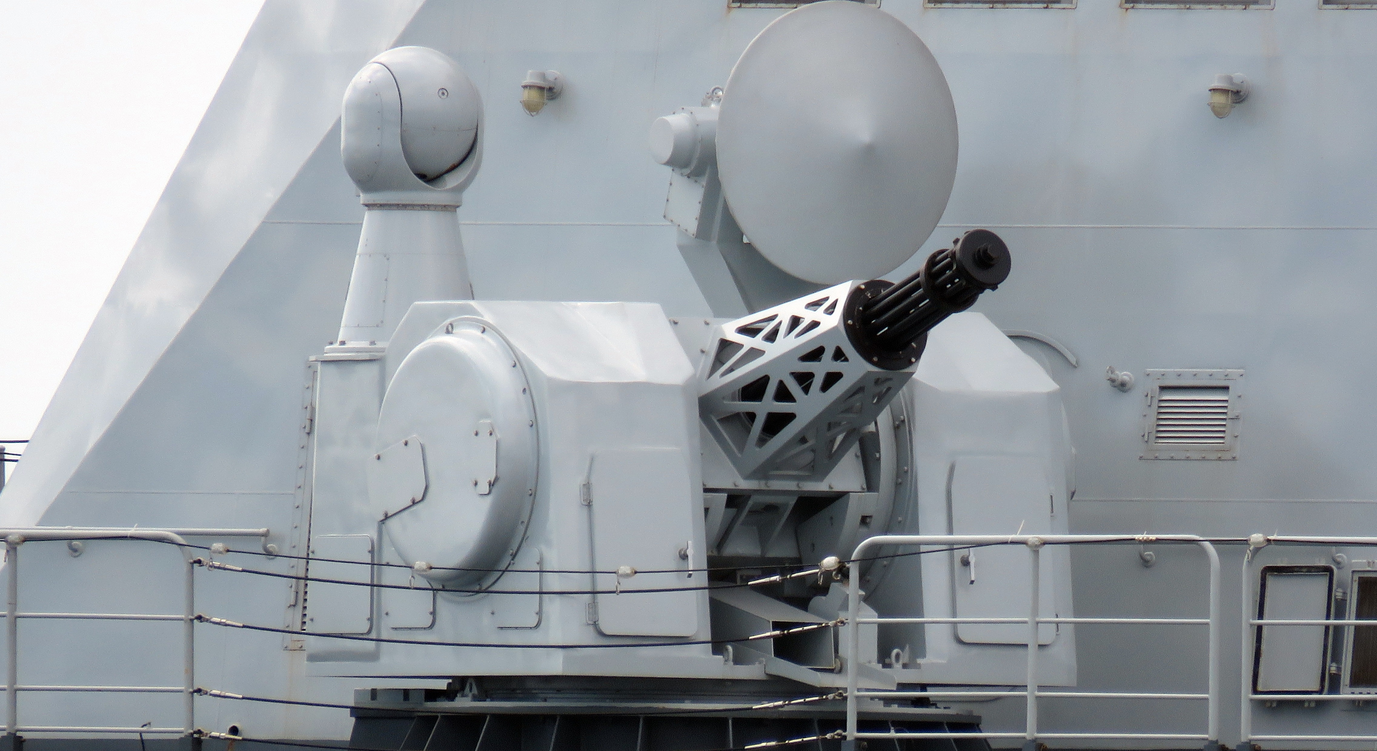 Side view of the Type 1130 Close In Weapons (CIWS) of the Wuhu (539), a Type 054A Frigate of the People's Liberation Army Navy (PLAN). Photo taken at the Manila South Harbor.